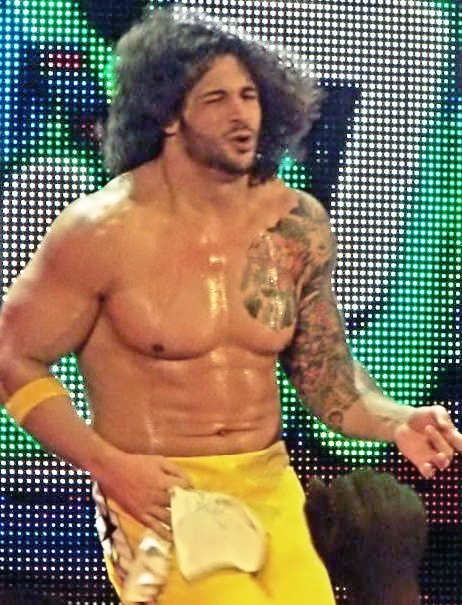 Richard Young competing on ECW as Ricky Ortiz